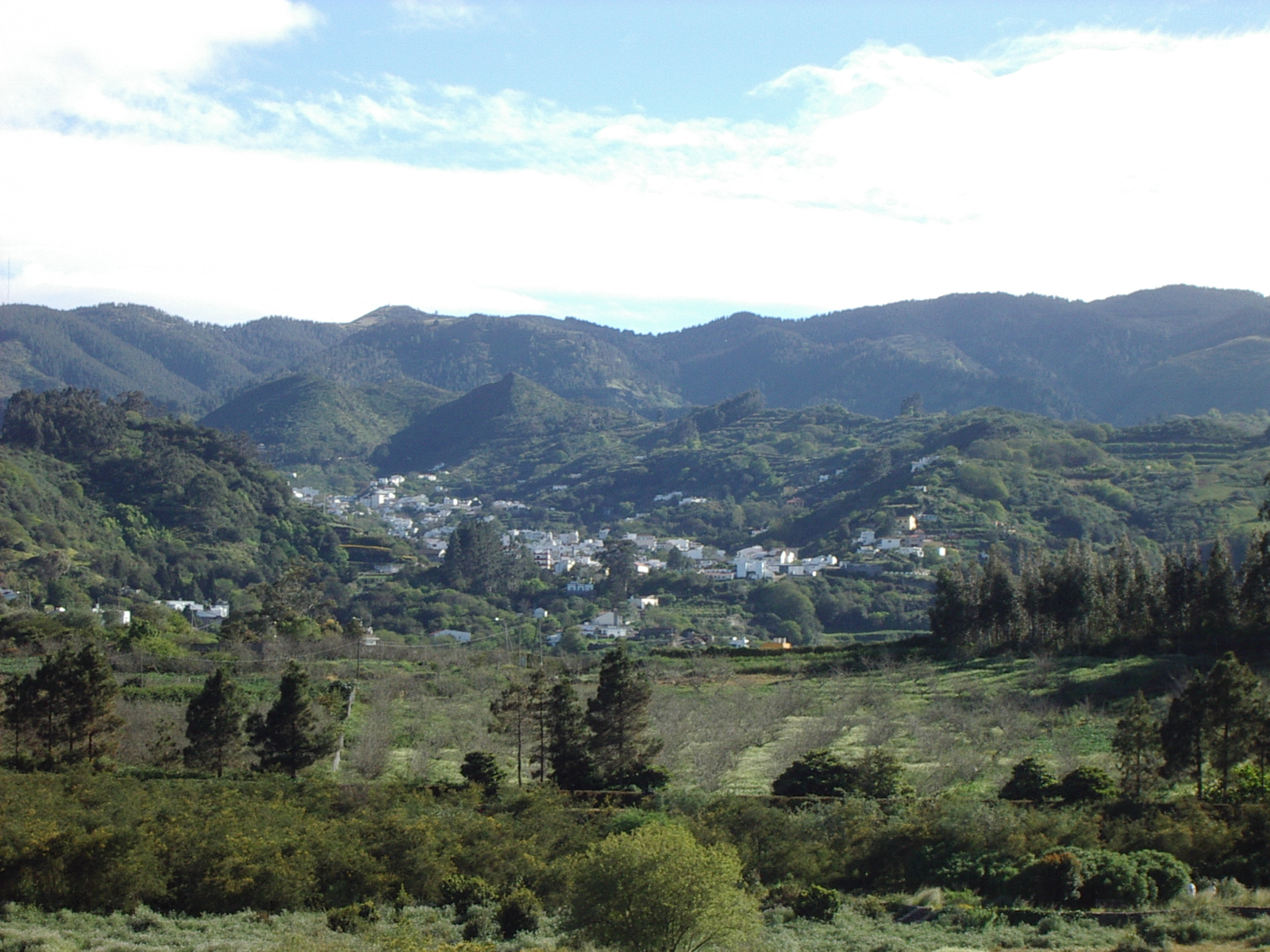 Valleseco, general view from La Laguna de Valleseco. Gran Canaria, Canary Islands. Spain.